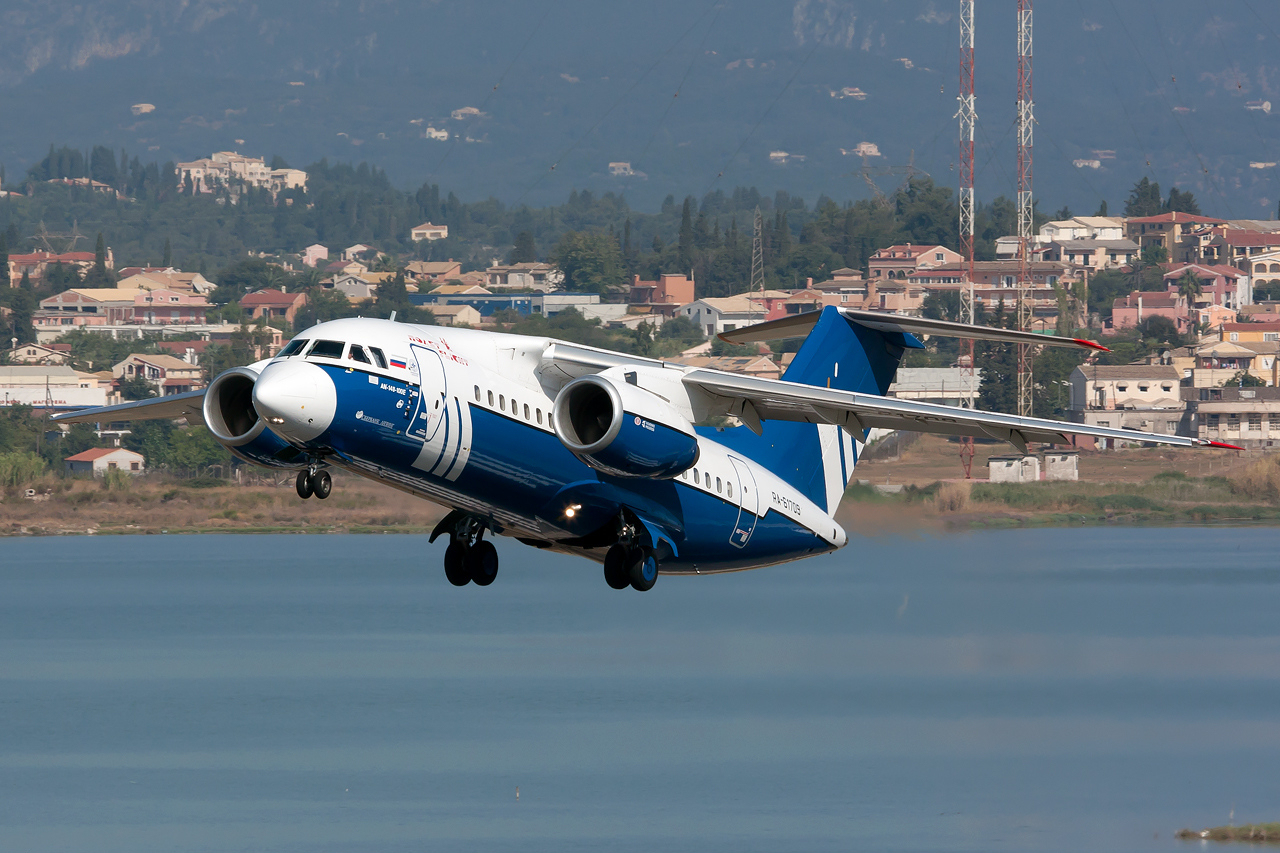 Polet Antonov An-148-100E taking off from Corfu International Airport